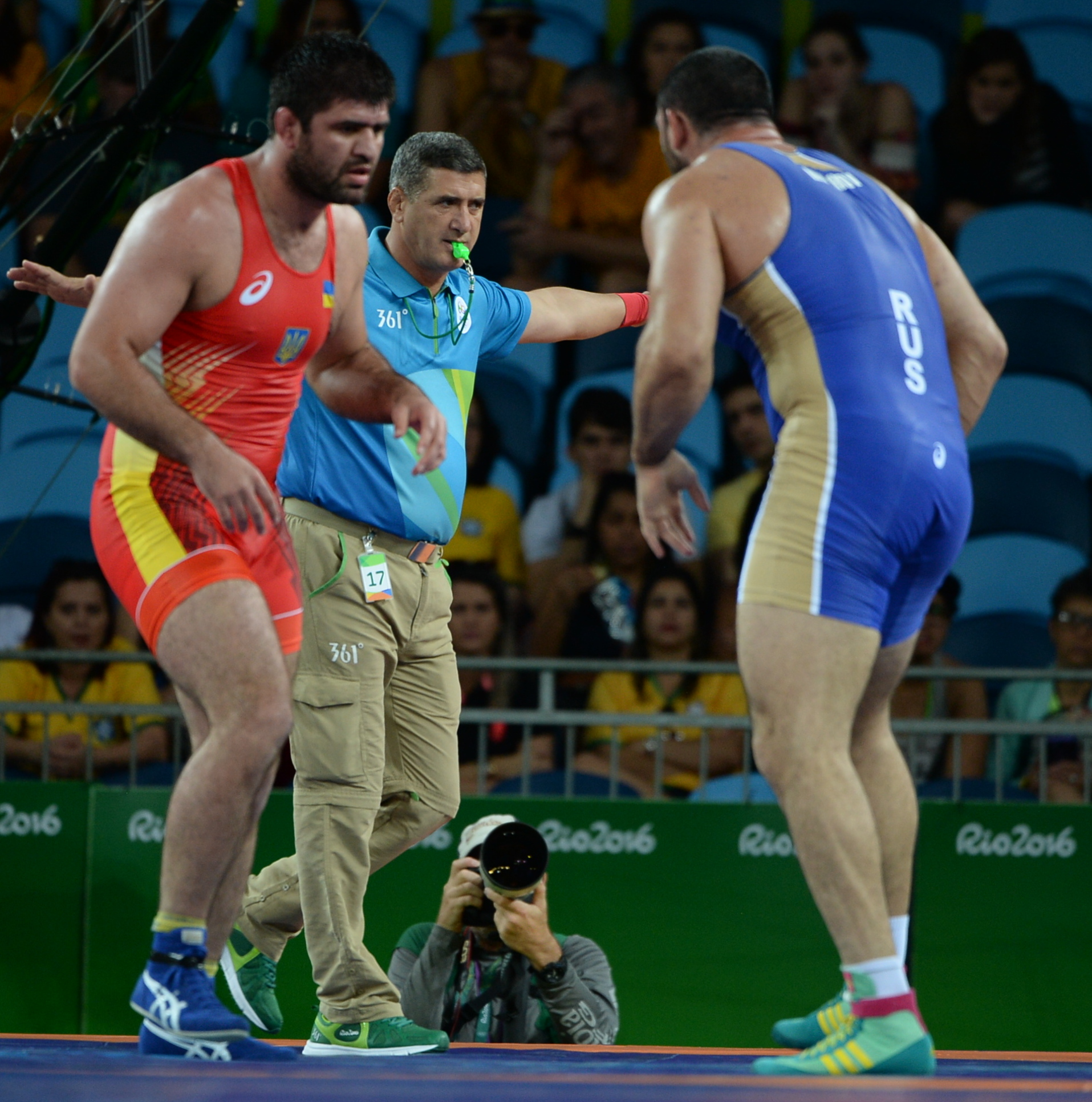 Wrestling at the 2016 Summer Olympics, Makhov vs Zasyeyev